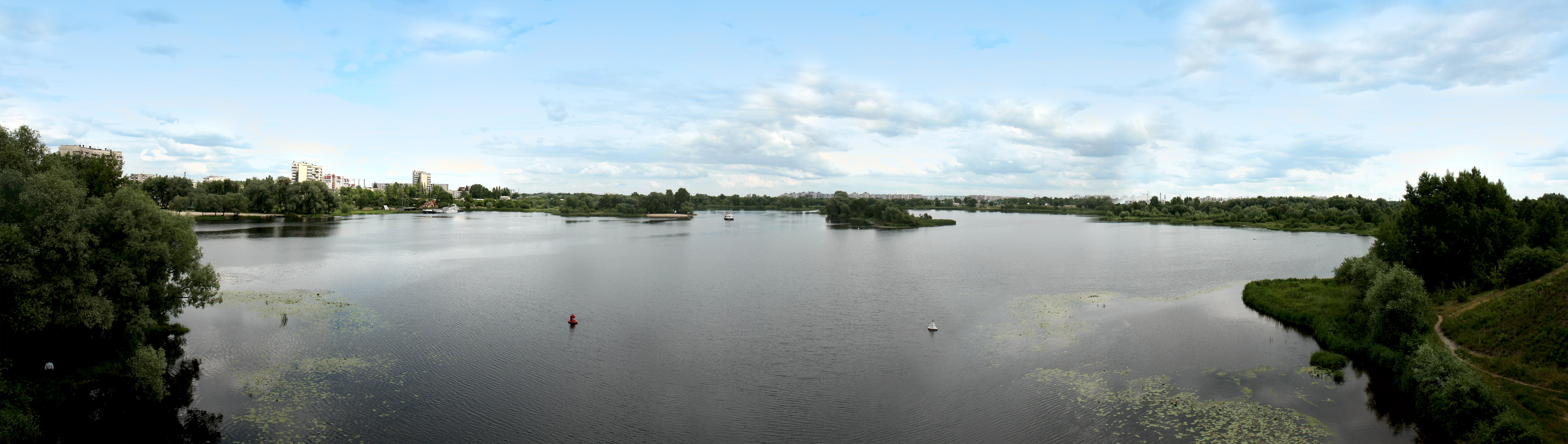 Muchaviec River in Brest, Belarus